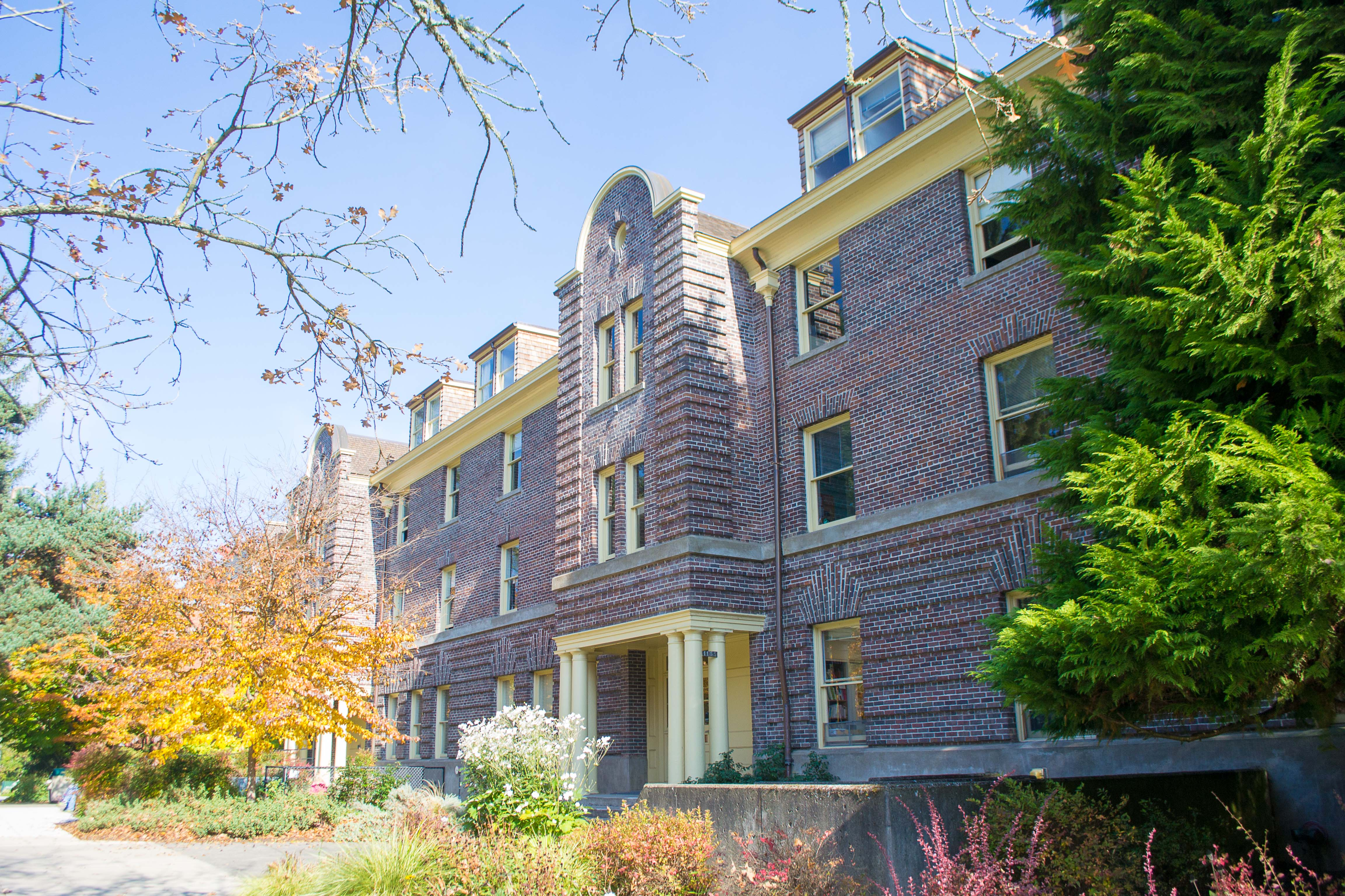 Friendly Hall at the University of Oregon